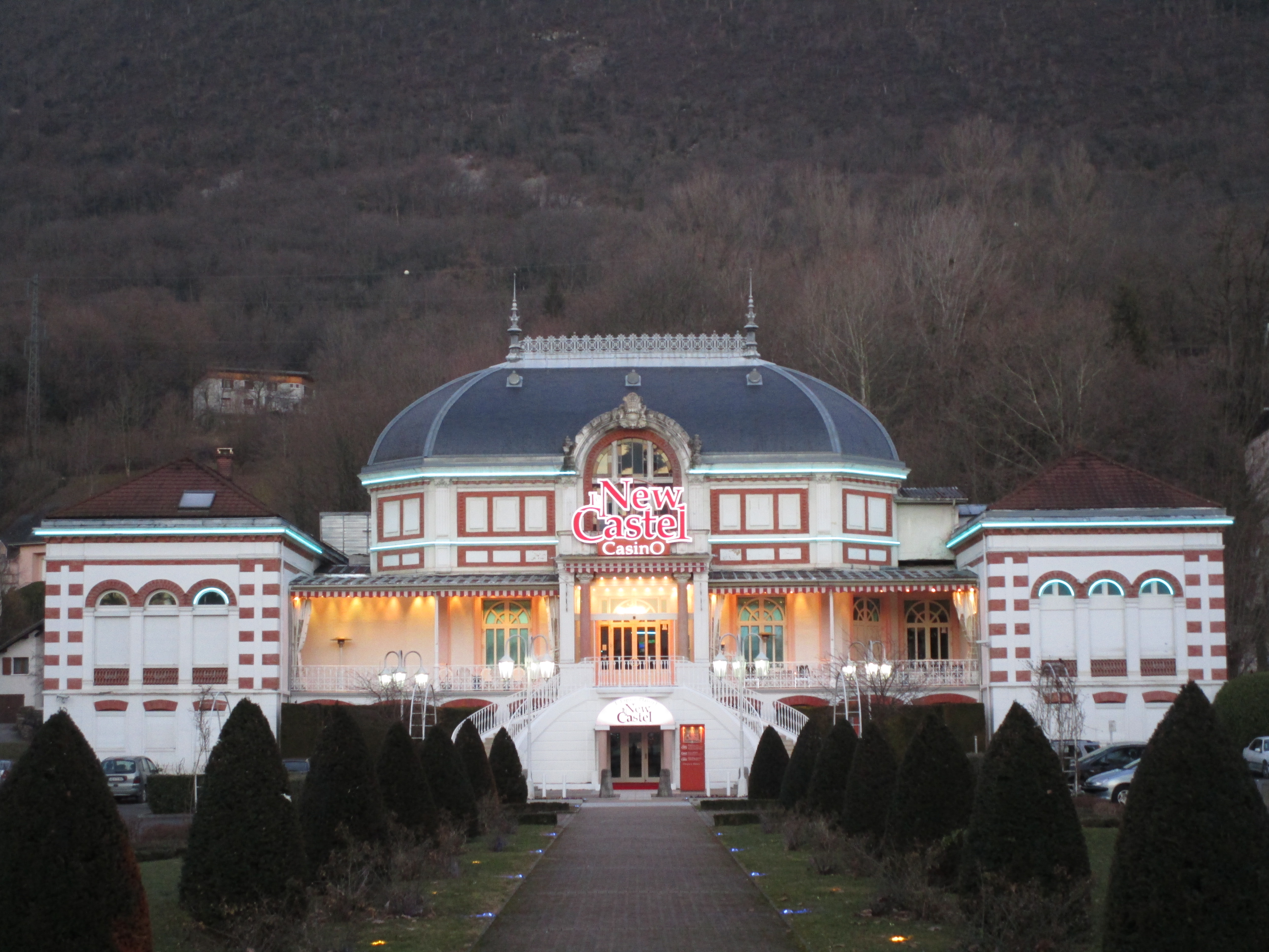 The casino of Challes-les-Eaux on February 19, 2015.